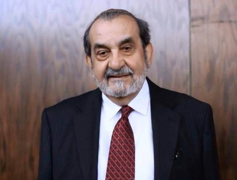 Velvel Pasternak photo from 2011